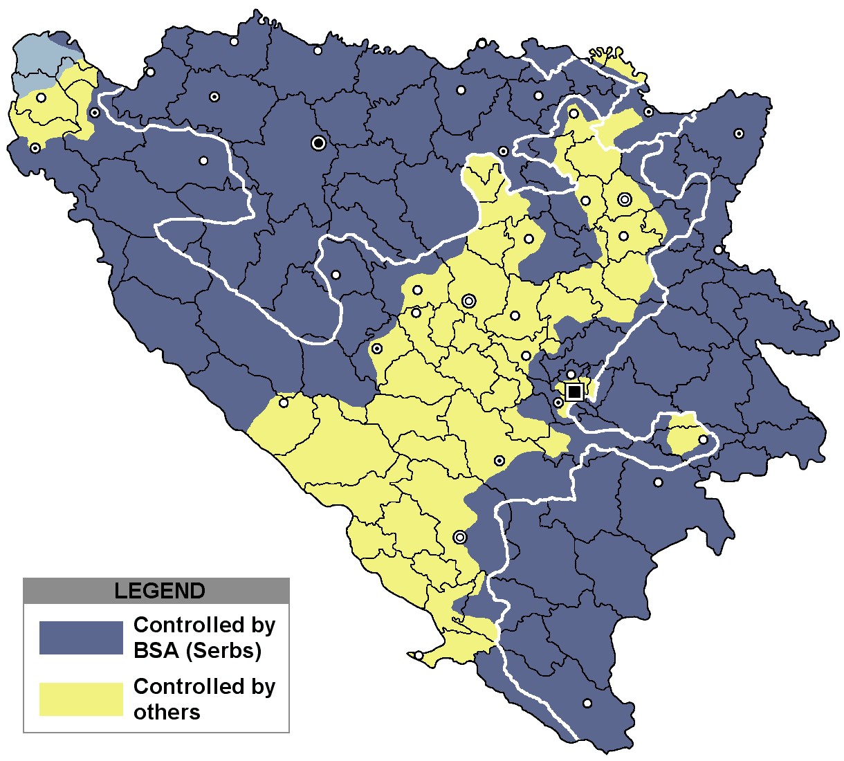 BiH territories which were controlled by BSA for some time during the war. NOTICE: This image is a greatly optimised PNG version of the original GIF version of the image. Color dihtering was removed, among other optimisations. The original image is here: Image:Bsa_controled.GIF